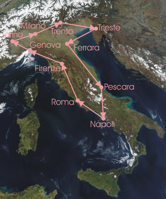 Map of Italy highlighting the stages of 1919 Giro d'Italia